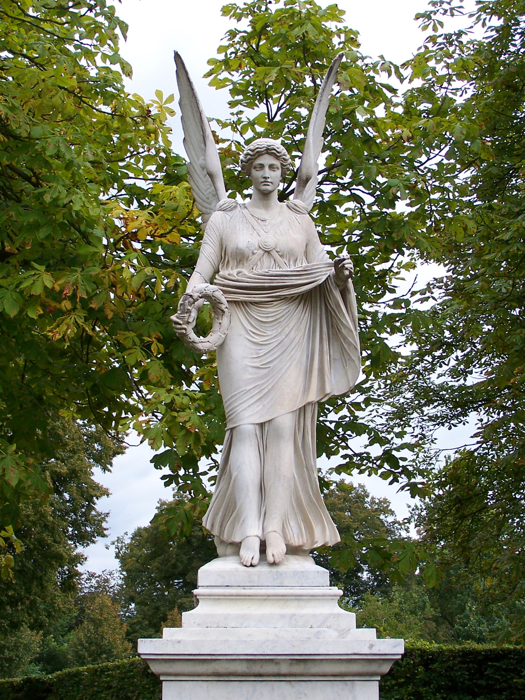 Victoria in Sanssouci park (Potsdam, Germany).